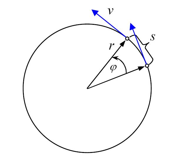 Uniform circular motion